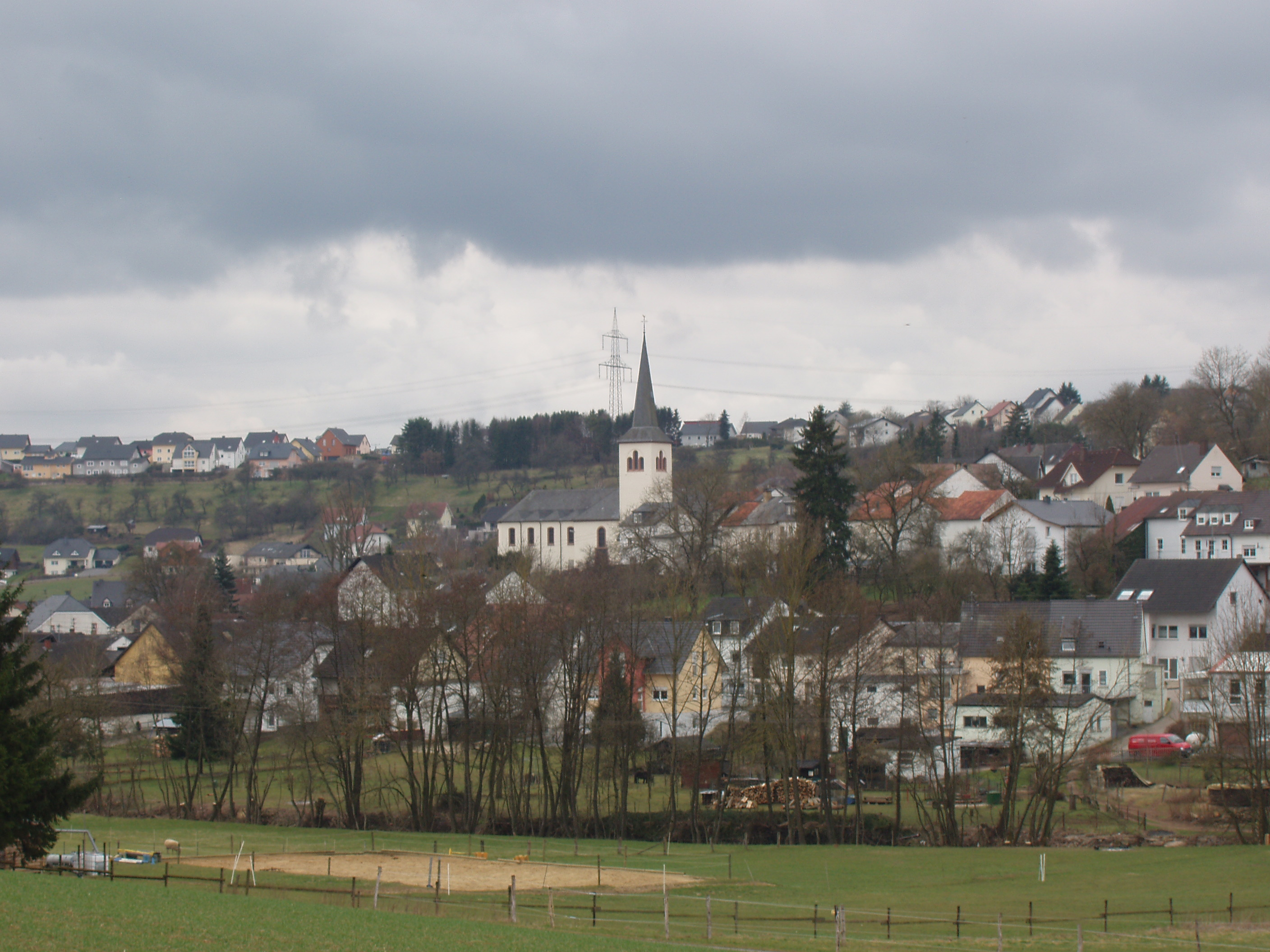 View at Rittersdorf from L5 road